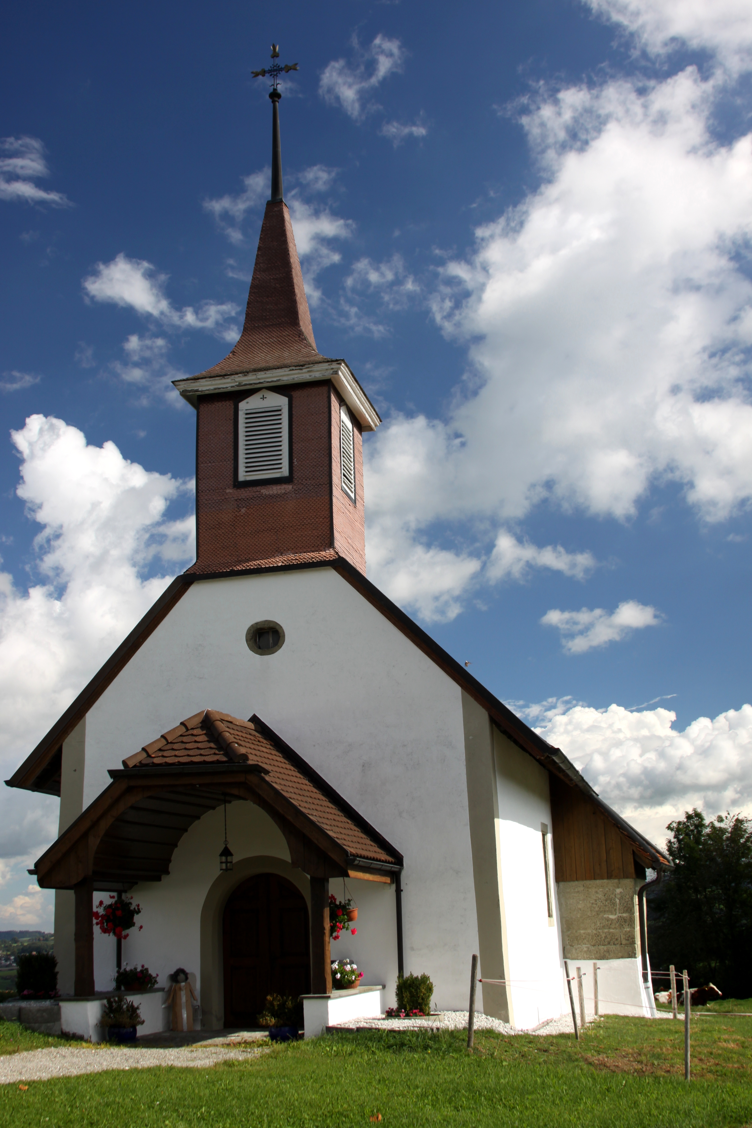 Chapel of St. Anne, Route d’Essert 41, Essert (Le Mouret)